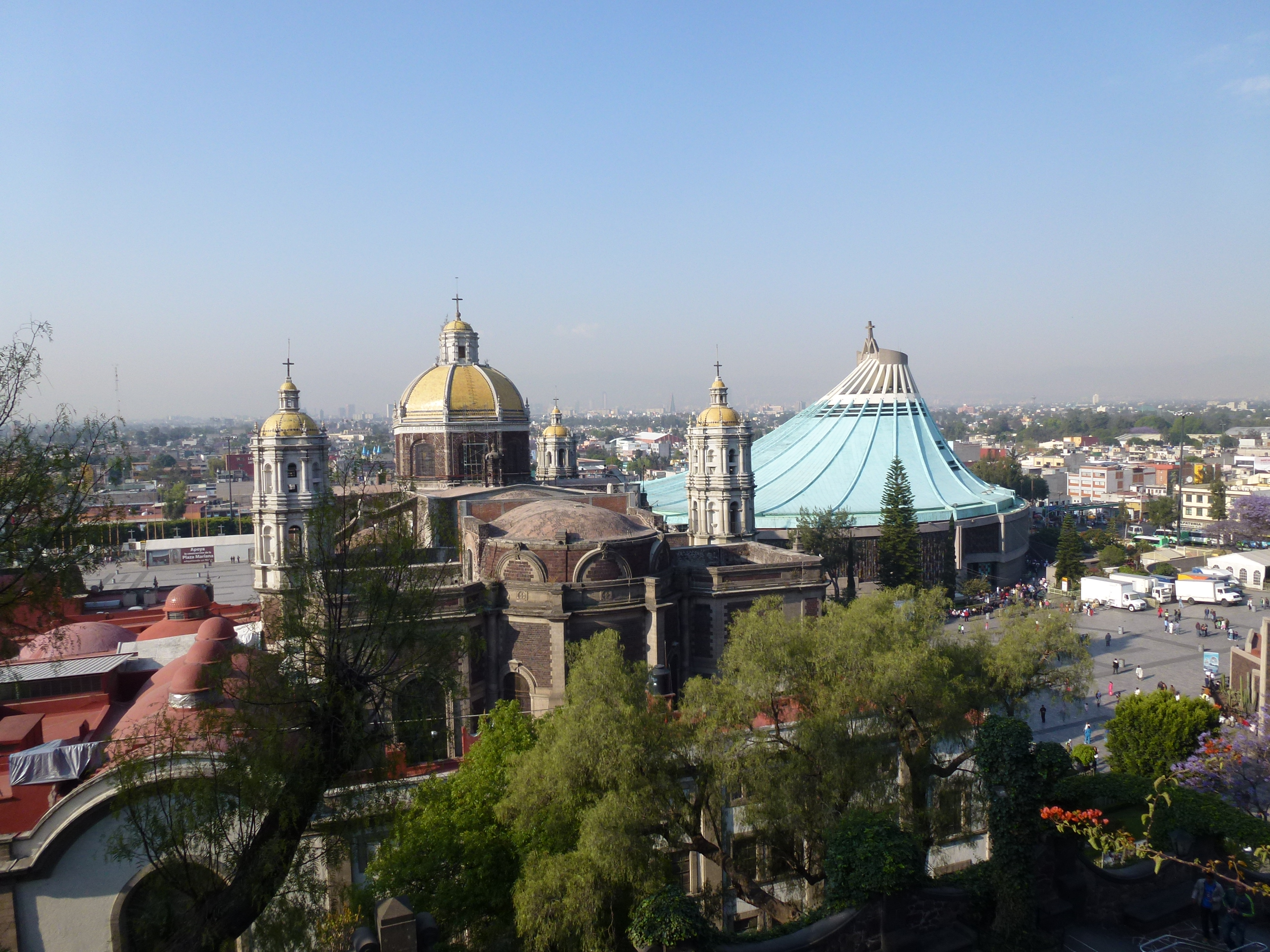 Villa Gustavo A. Madero, Mexico City, Mexico